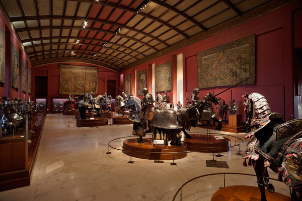 Spain, Madrid, province, Madrid, Palacio Real, royal palace, arms hall; Paul M.R. Maeyaert; reference , PM_80689_E_Madrid.jpg